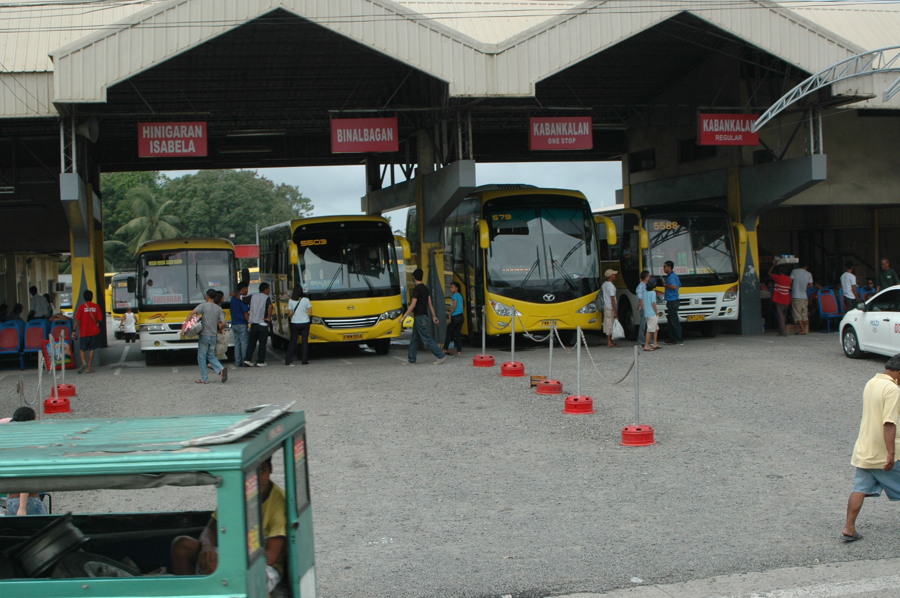 Bacolod, Negros